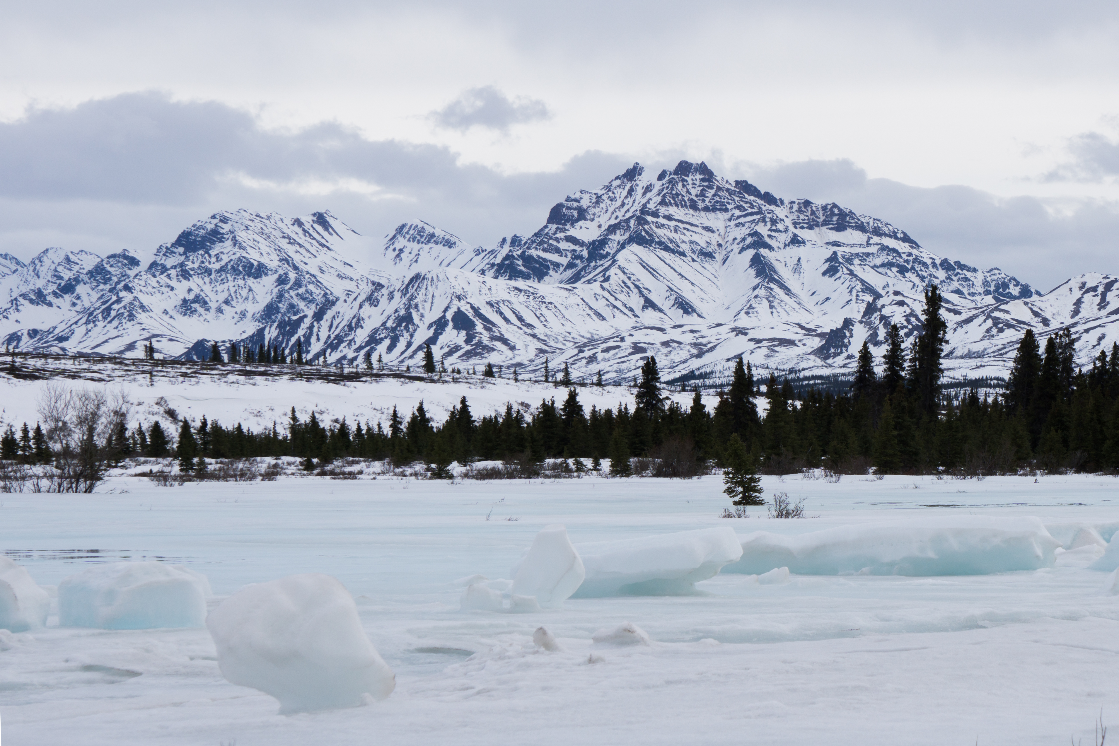 Ice and mountain view in Denali National Park